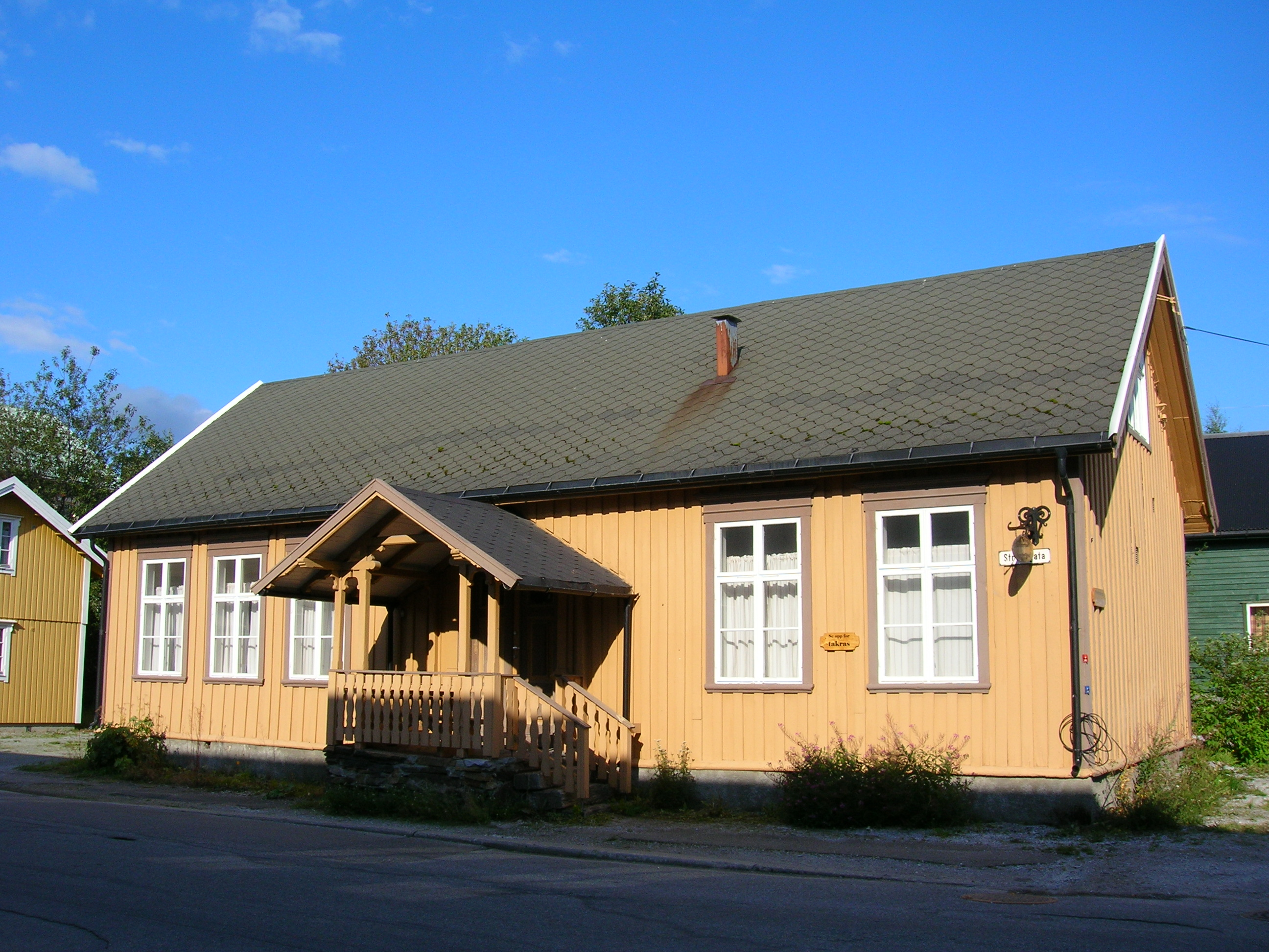 The old city council of the city municipality of Mo (1923-1963), used before Mo was merged with the municipality of Nord-Rana and parts of Sør-Rana and Hemnes into the new municipality of Rana in 1964. Rana municipality, county of Nordland, Norway. Photo 14 August 2007 with a Nikon Coolpix 5600 5,1 Megapixel camera.